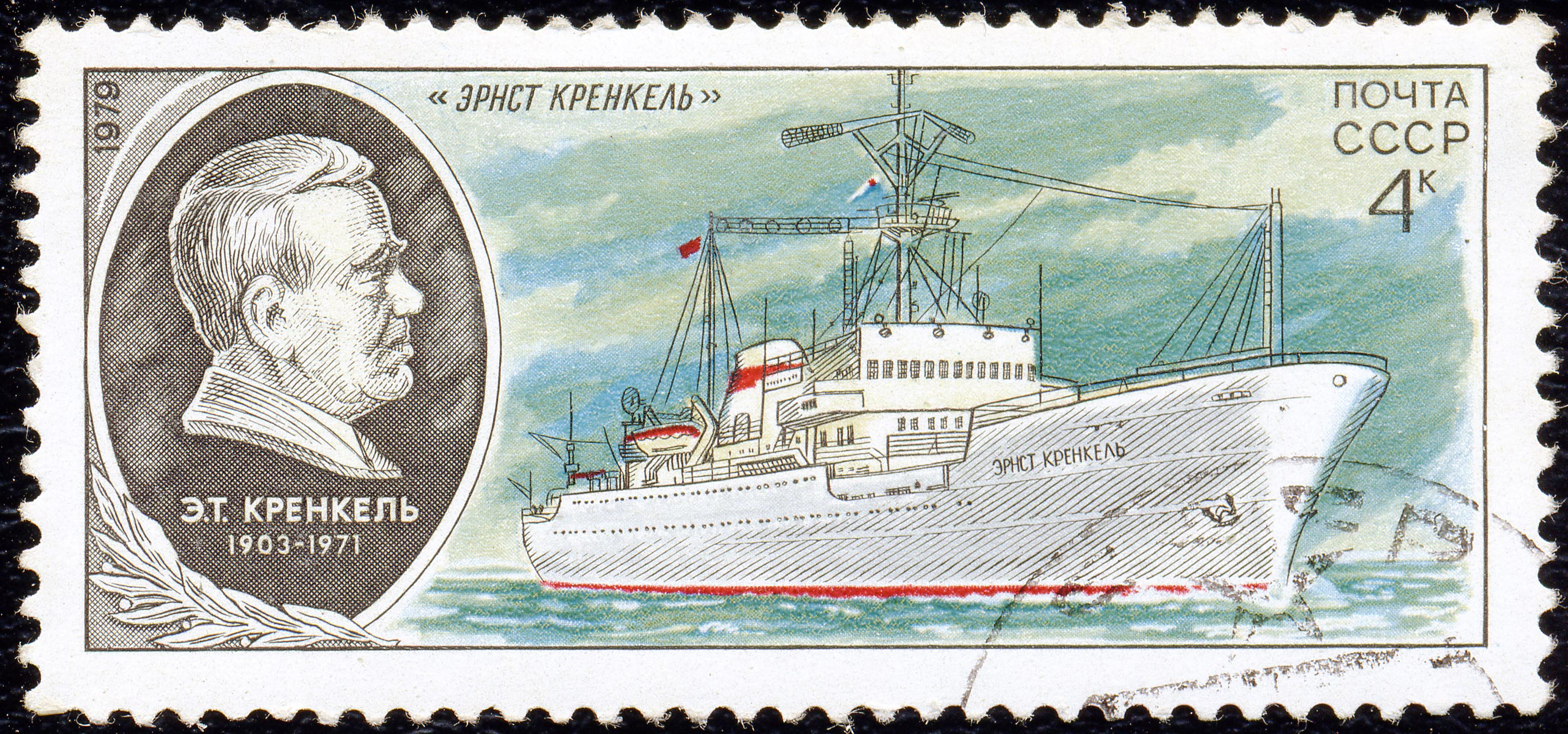 Soviet postage stamp of 4 kopecks from 1979. Ship "Ernst Krenkel", with portrait of Ernst Teodorovich Krenkel (1903-1971).